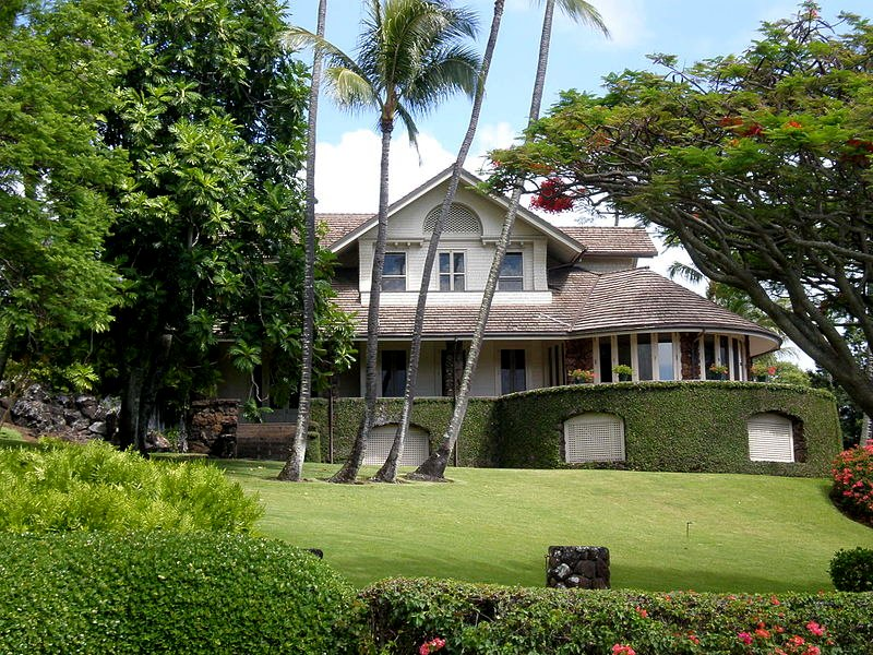 Level balanced version of public photo previously published on wikipedia